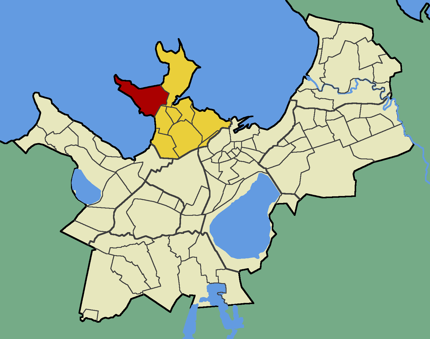 Map of Tallinn (Estonia) with borders of the quarters, Põhja-Tallinn district and Kopli quarter emphasised